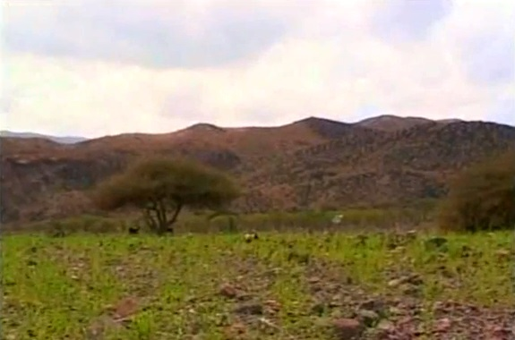 Arta Mountains in the raining season 2005